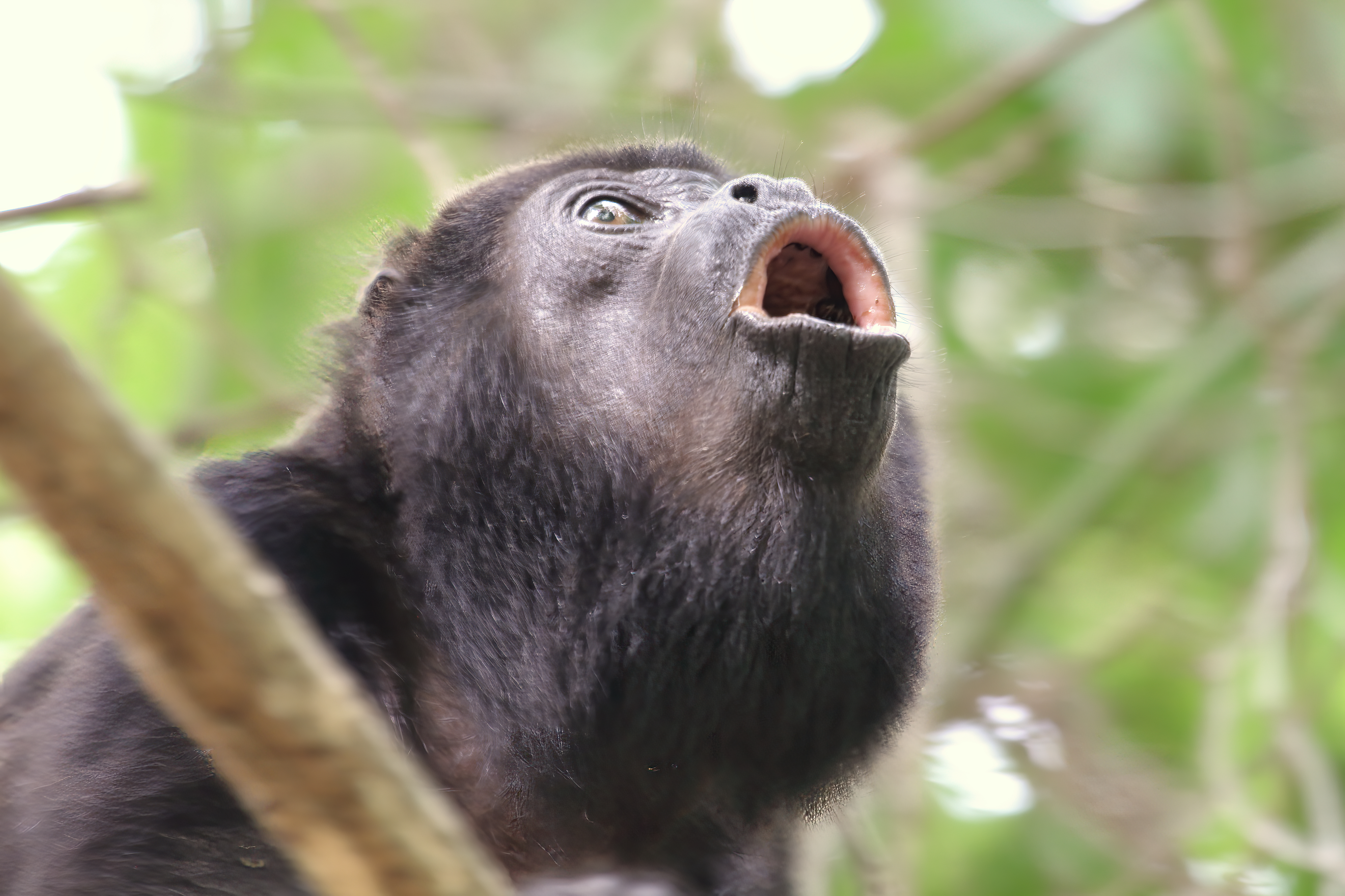 Mantled howler in Mangrove along estero de Playa Grande, Costa Rica